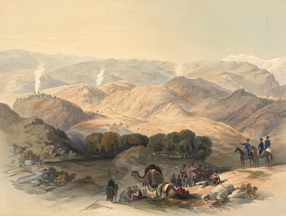 The Grove and Valley of Jugdulluk where General Elphinstone's Army made its last stand in the calamitous retreat; during January 1842. Major-General William George Keith Elphinstone CB (1782 – 23 April 1842).